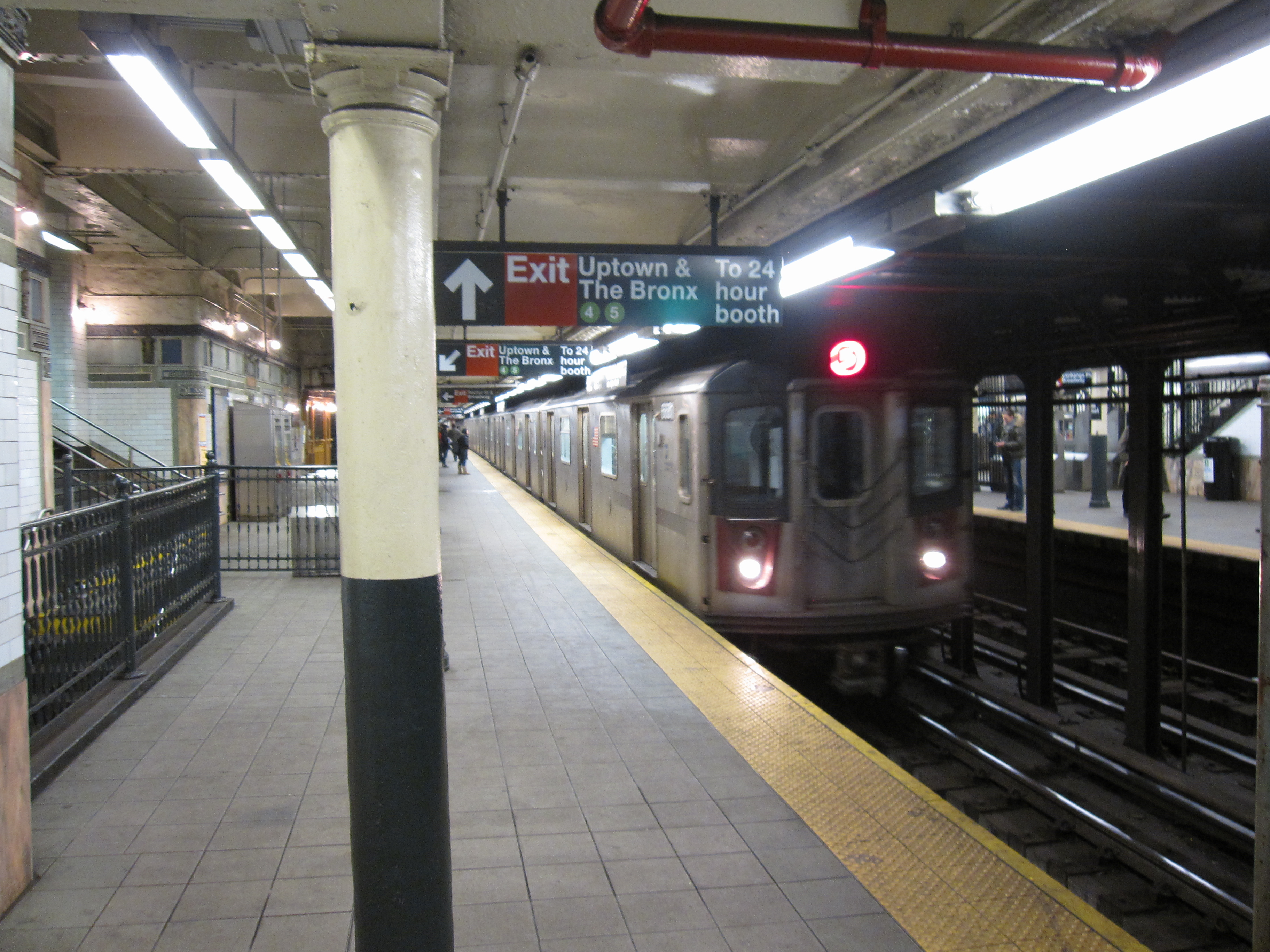 Wall Street (IRT Lexington Avenue Line)